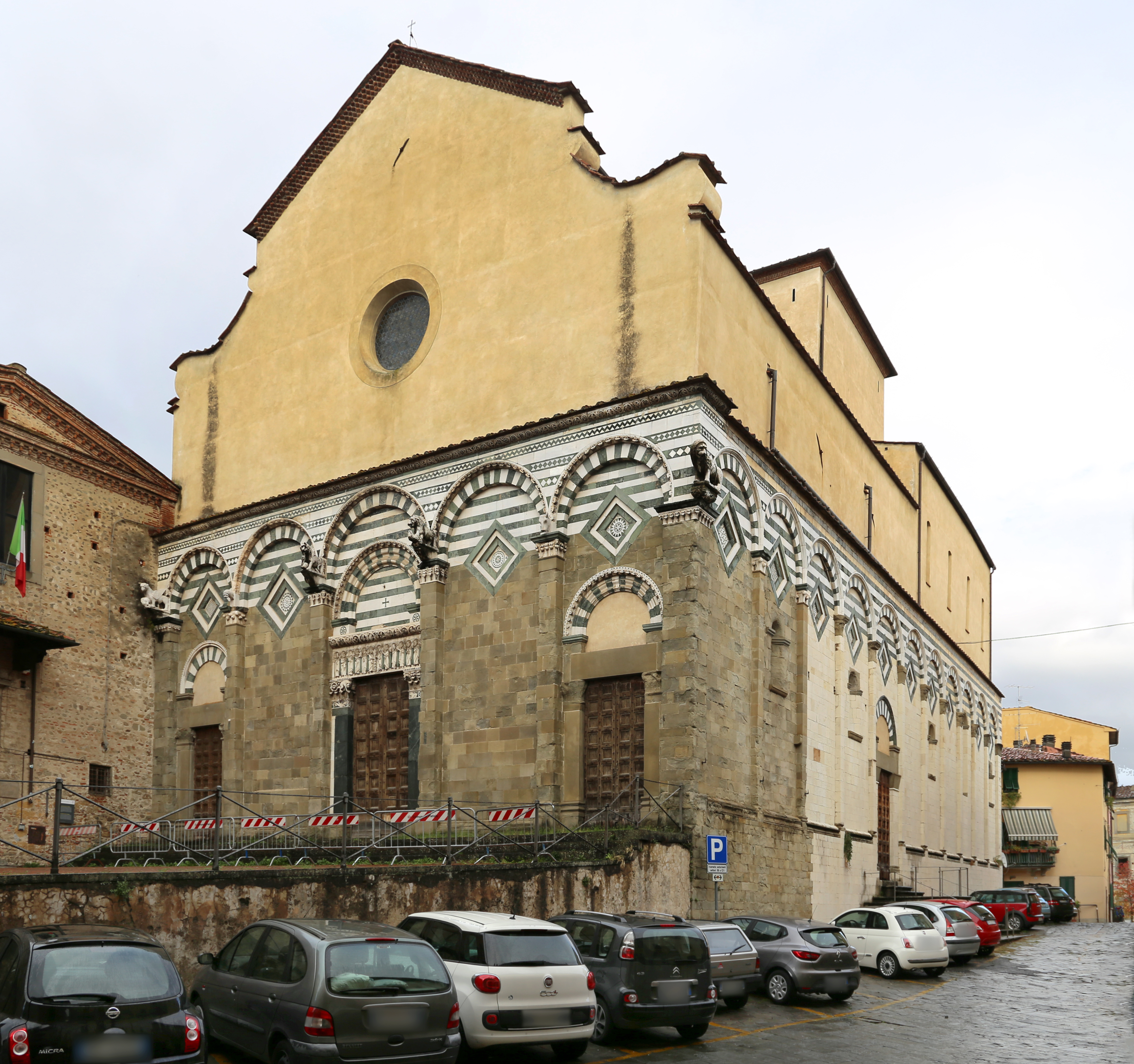 Churches in Pistoia